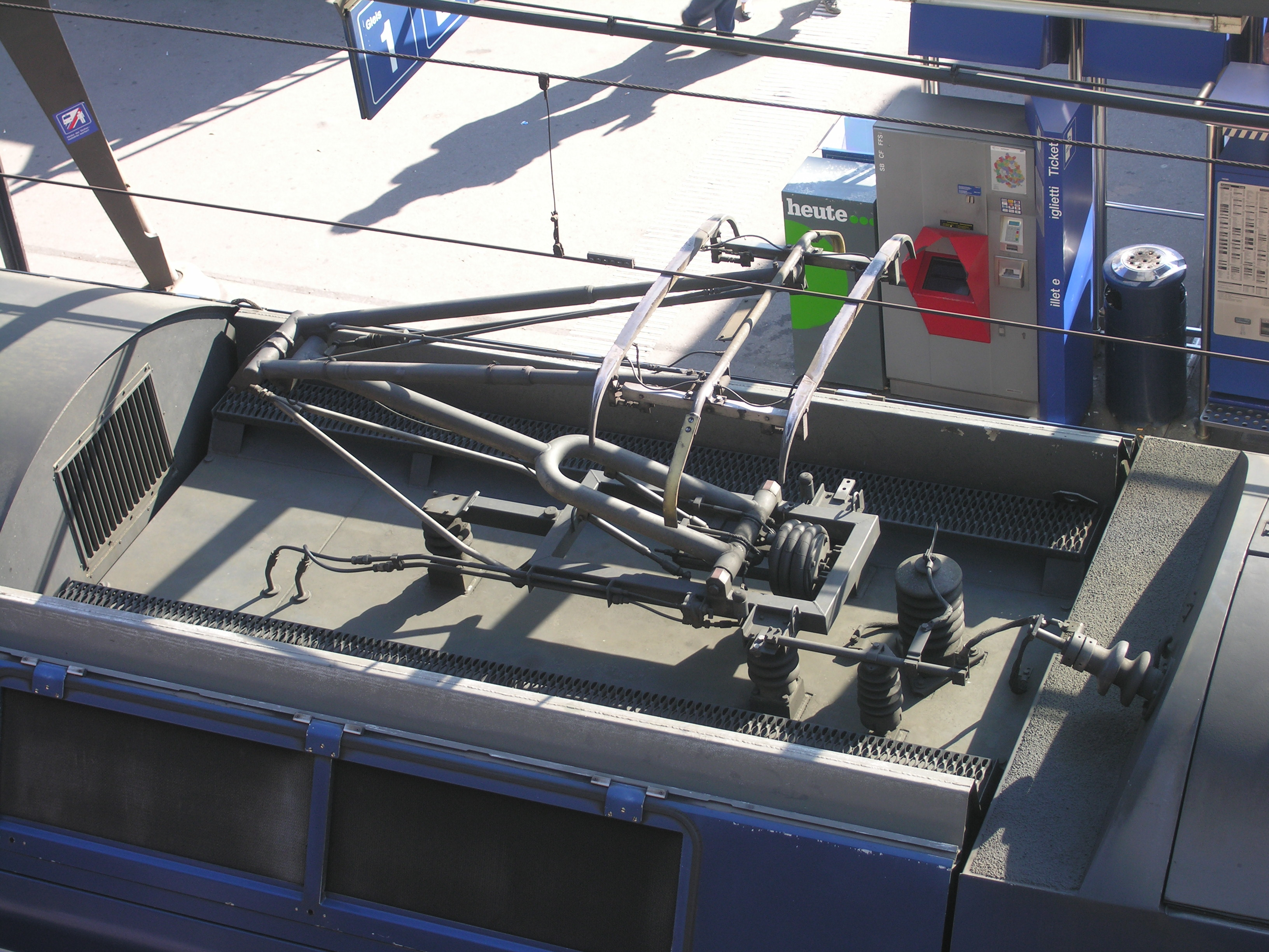 Pantograph of a Swiss SBB Re 450